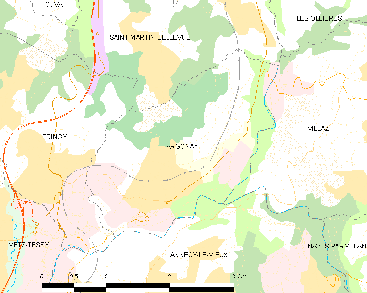 Map of French municipality Argonay